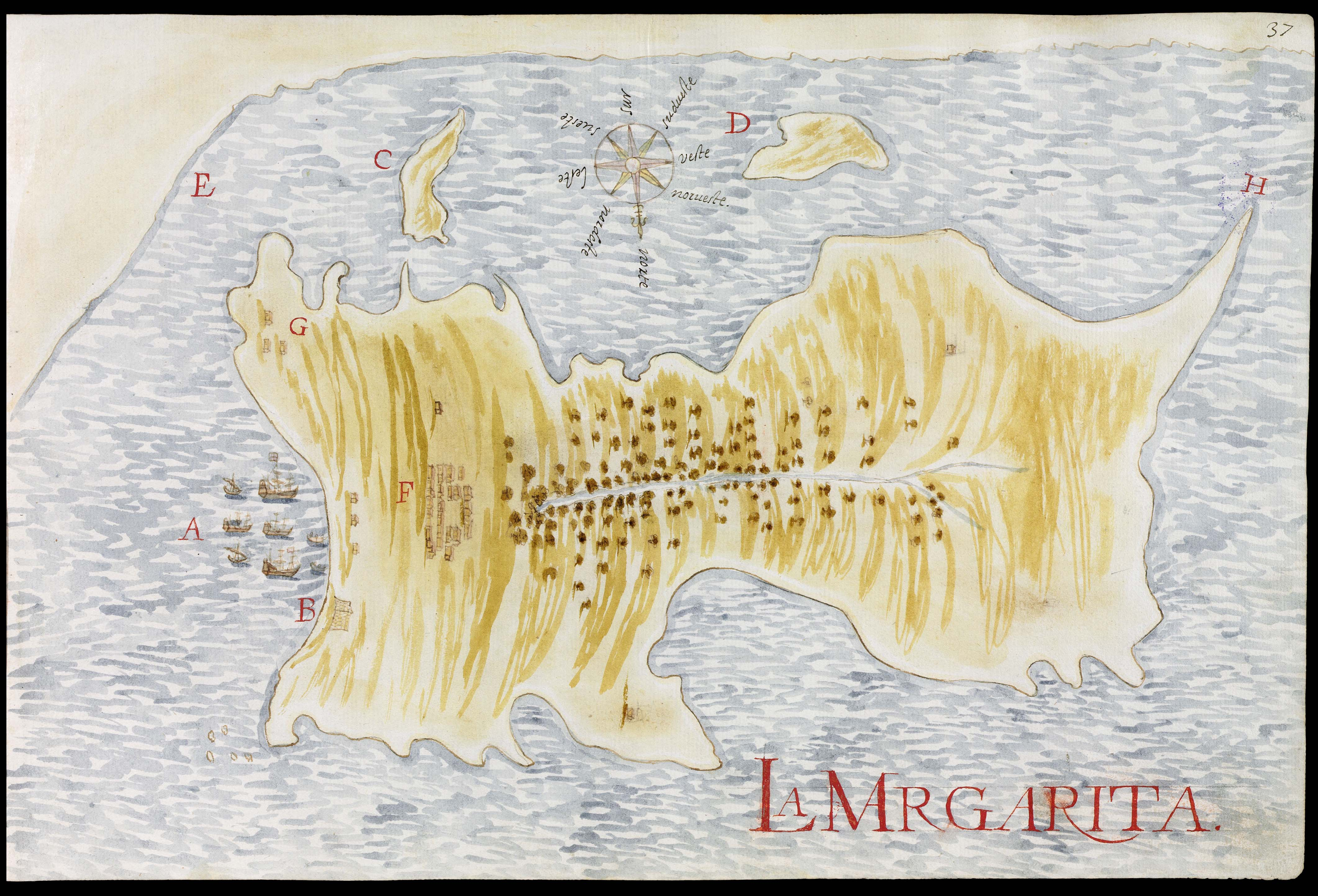 Map of Margarita island, with south at the top. Legend (from page 36): A. The exploration ships. B.Castle of Mompatar. C. Cocha island. D. Cubagua island. E. Firm land. F. The city. G. Pearl farms. H. Macanao point. Page 37 of the Descripciones geográphicas e hydrográphicas de muchas tierras y mares del Norte y Sur en las Indias, en especial del descubrimiento del Reino de la California (Geographic and hydrographic descriptions of many northern and southern lands and seas in the Indies, specifically the discovery of the kingdom of California), written by captain Nicolás de Cardona after his expedition of 1614.